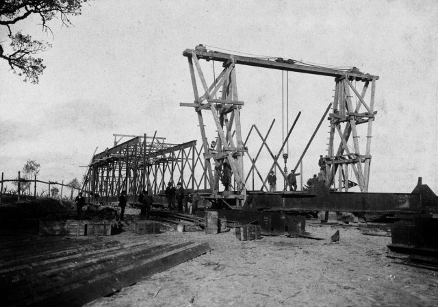 João Joaquim Isidro dos Reis bridge, aka Chamusca bridge, under construction.